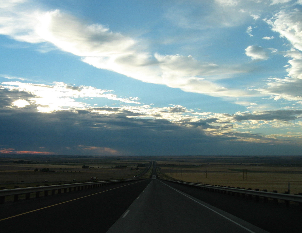 Interstate 84 in Oregon, past the Blue Mountains a few miles south of Pendleton, Oregon.